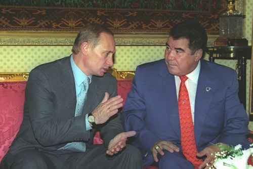 ASHGABAT. President Putin and Turkmen President Saparmurat Niyazov.